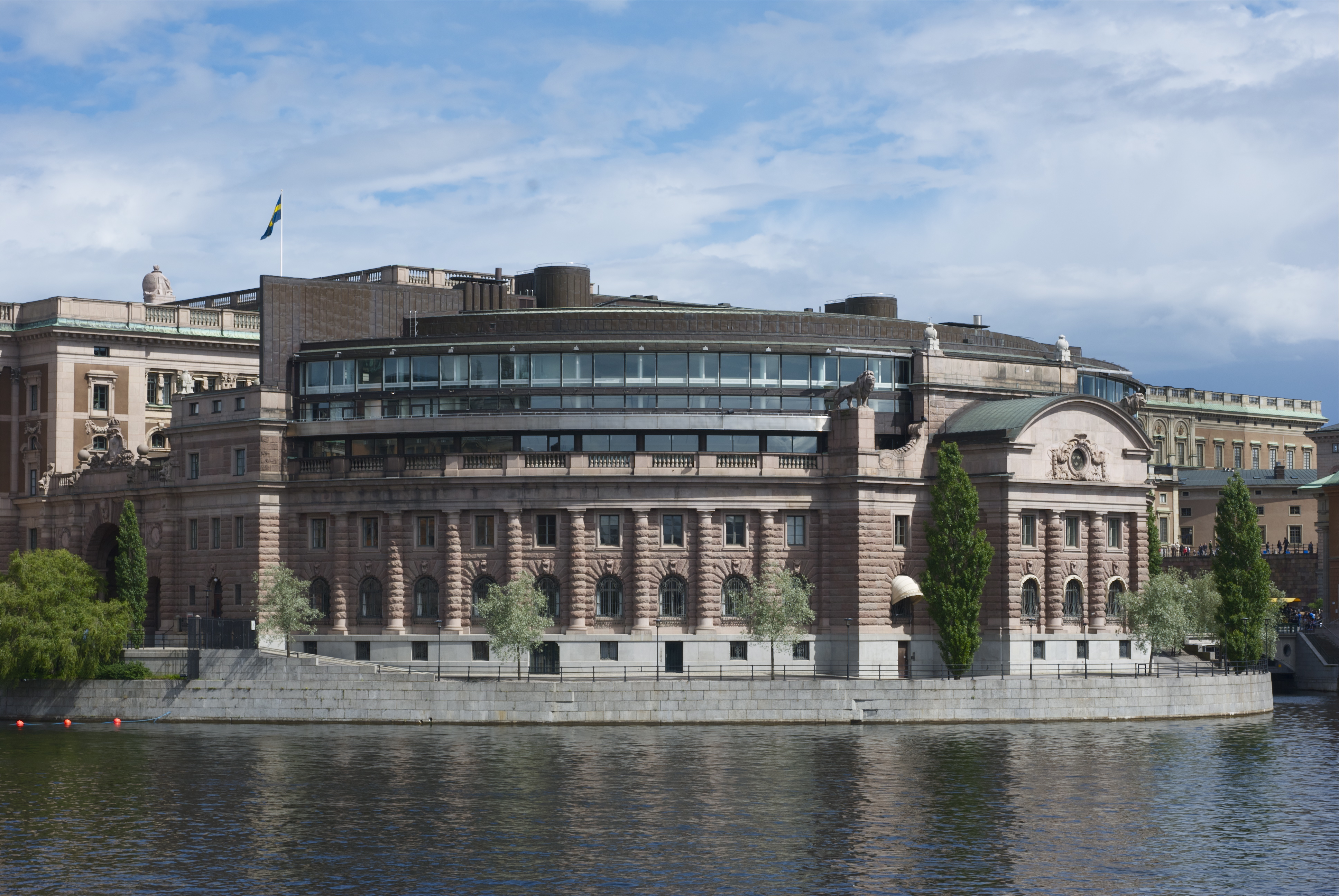 Riksdagen (House of Parlament), Stockholm. June 2011.